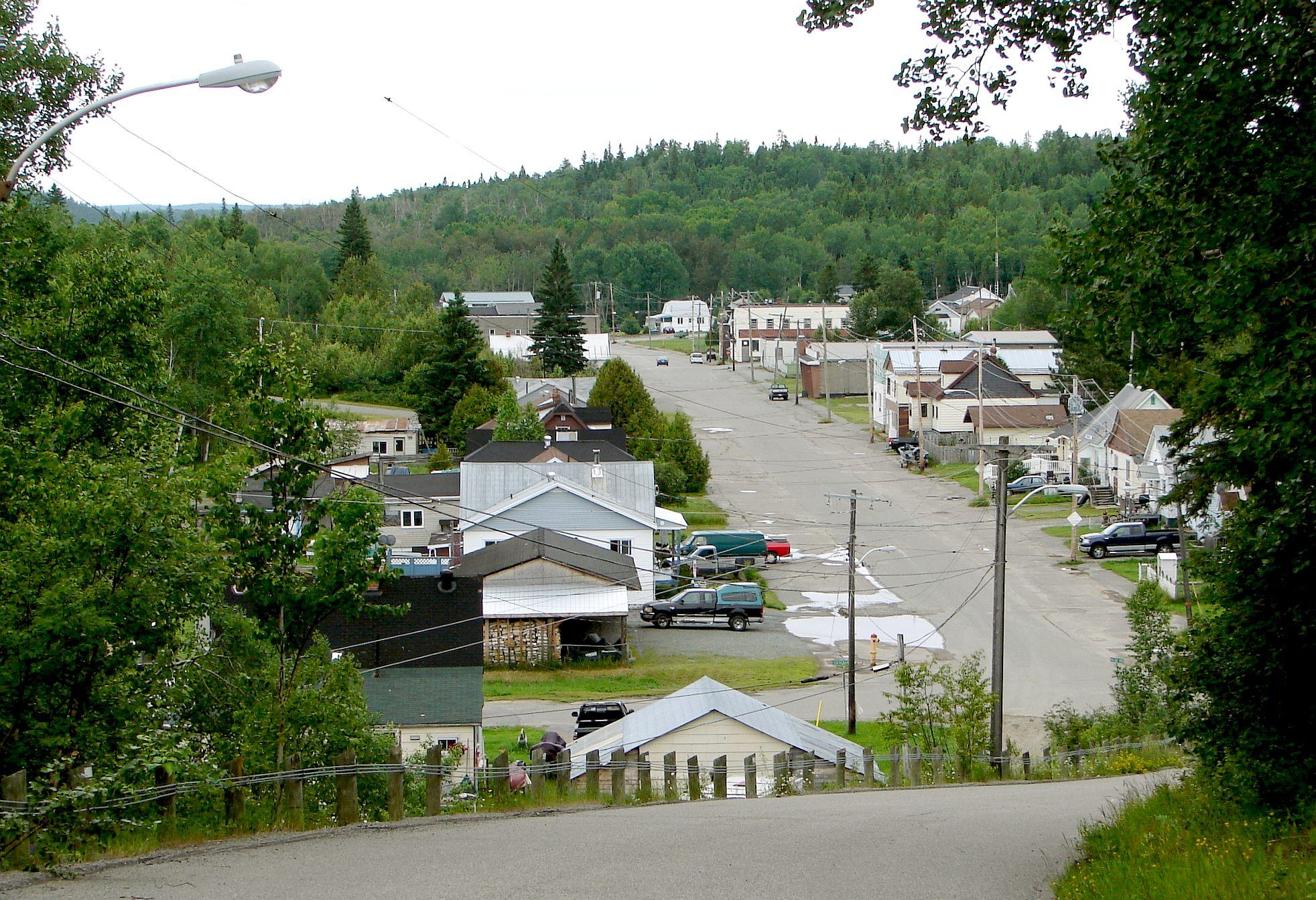 Virginiatown (McGarry Township), Ontario, Canada